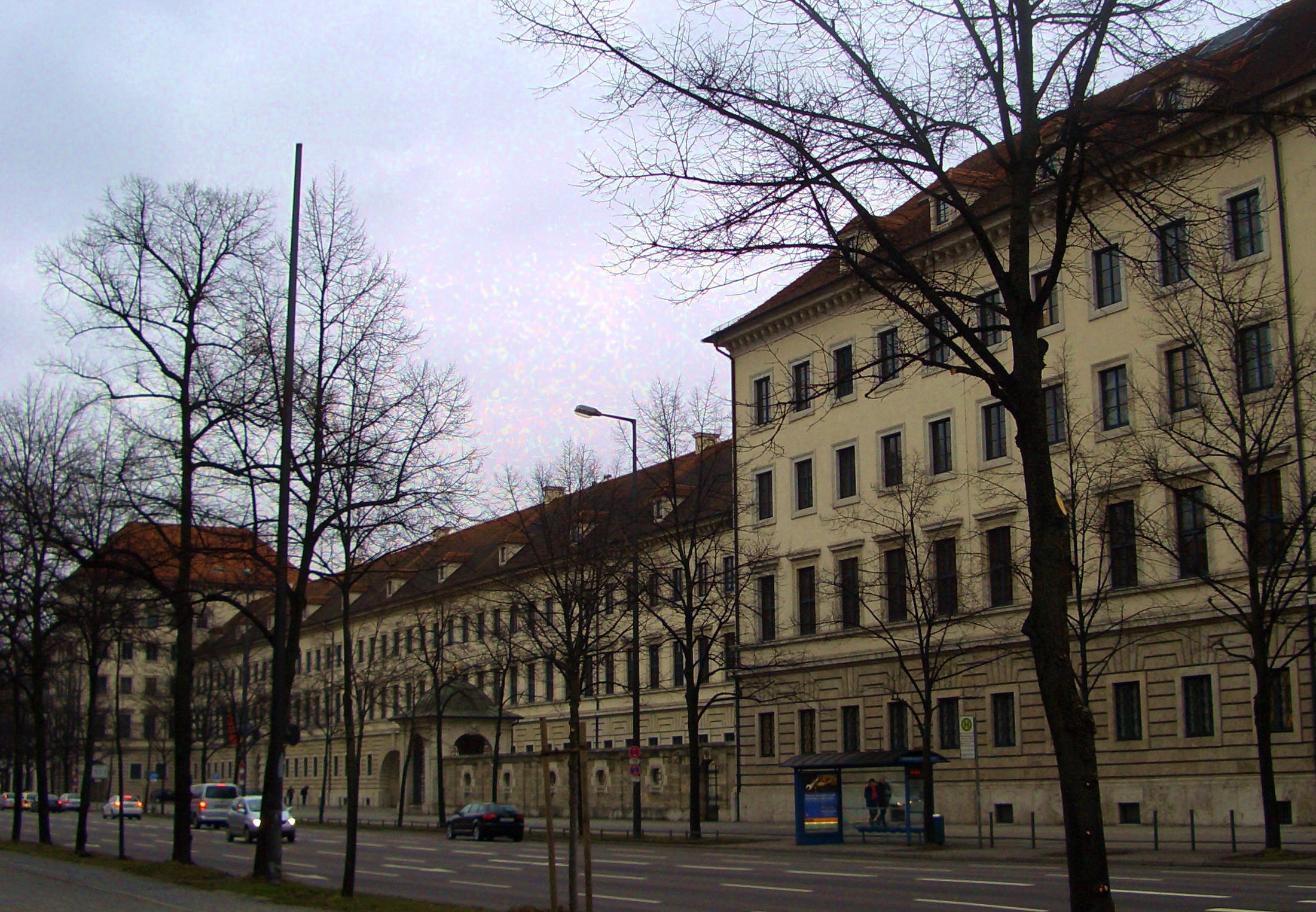 Bavarian Ministry of Economics in Munich, Bavaria, Germany